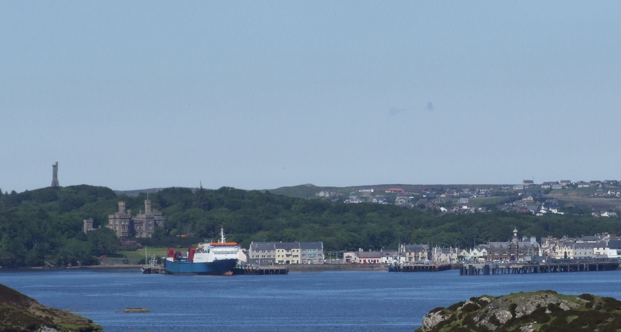 Panorama of Stornoway Harbour from Arnish Point showing Lews Castle, Harbour area, Town House and Laxdale village in distance